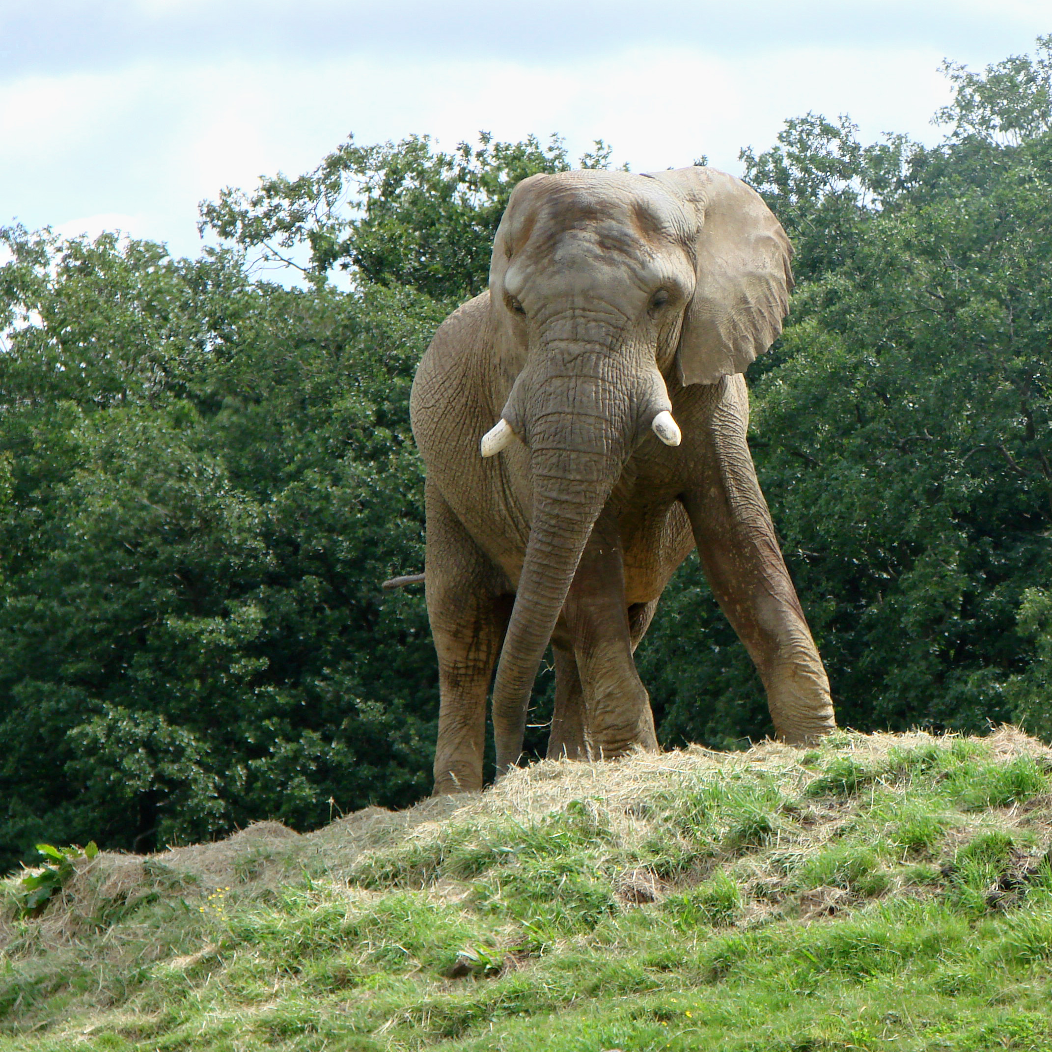 Africa elephant, Thoiry zoo, France.